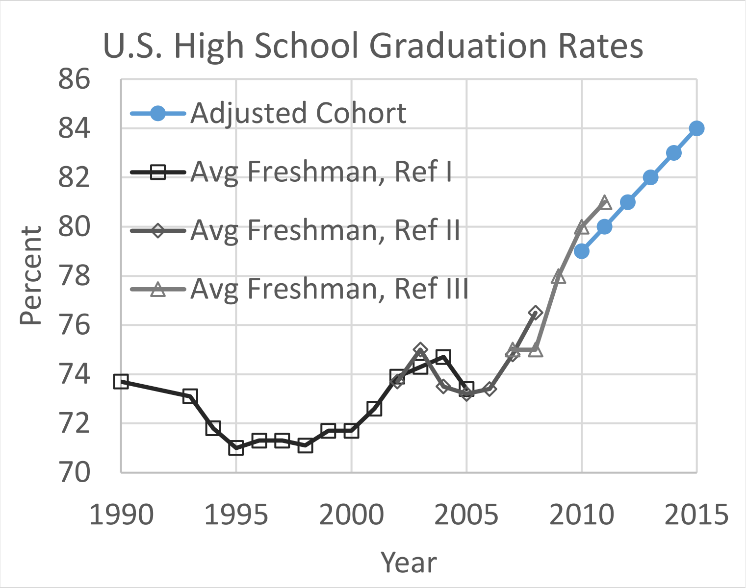 Year indicates start of school year. Several definitions of graduation rates exist for high school. Adjusted Cohort Graduation Rate (ACGR) is more modern, but covers only a few years. Average Freshman Graduation Rate (AFGR) goes back as far as the 1960s, but is considered less accurate ( There may be some discrepancy among references due to 1) rounding, and 2) possibly reporting of total versus public high school graduation rates. Source of ACGR: Table 219.46. Public high school 4-year adjusted cohort graduation rate (ACGR), by selected student characteristics and state: 2010-11 through 2015-16 ( Sources of AFGR: Reference I: Annual diploma counts and the Averaged Freshmen Graduation Rate (AFGR) in the United States by race/ethnicity: School years 2007‑08 through 2011‑12 ( Reference II: Averaged Freshmen Graduation Rate (AFGR) by race/ethnicity, gender, state or jurisdiction, and year: School years 2002–03 through 2008–09 ( Reference III: Digest of Education Statistics 2008, Table 106. Averaged freshman graduation rates for public secondary schools, by state or jurisdiction: Selected years, 1990–91 through 2005–06. (